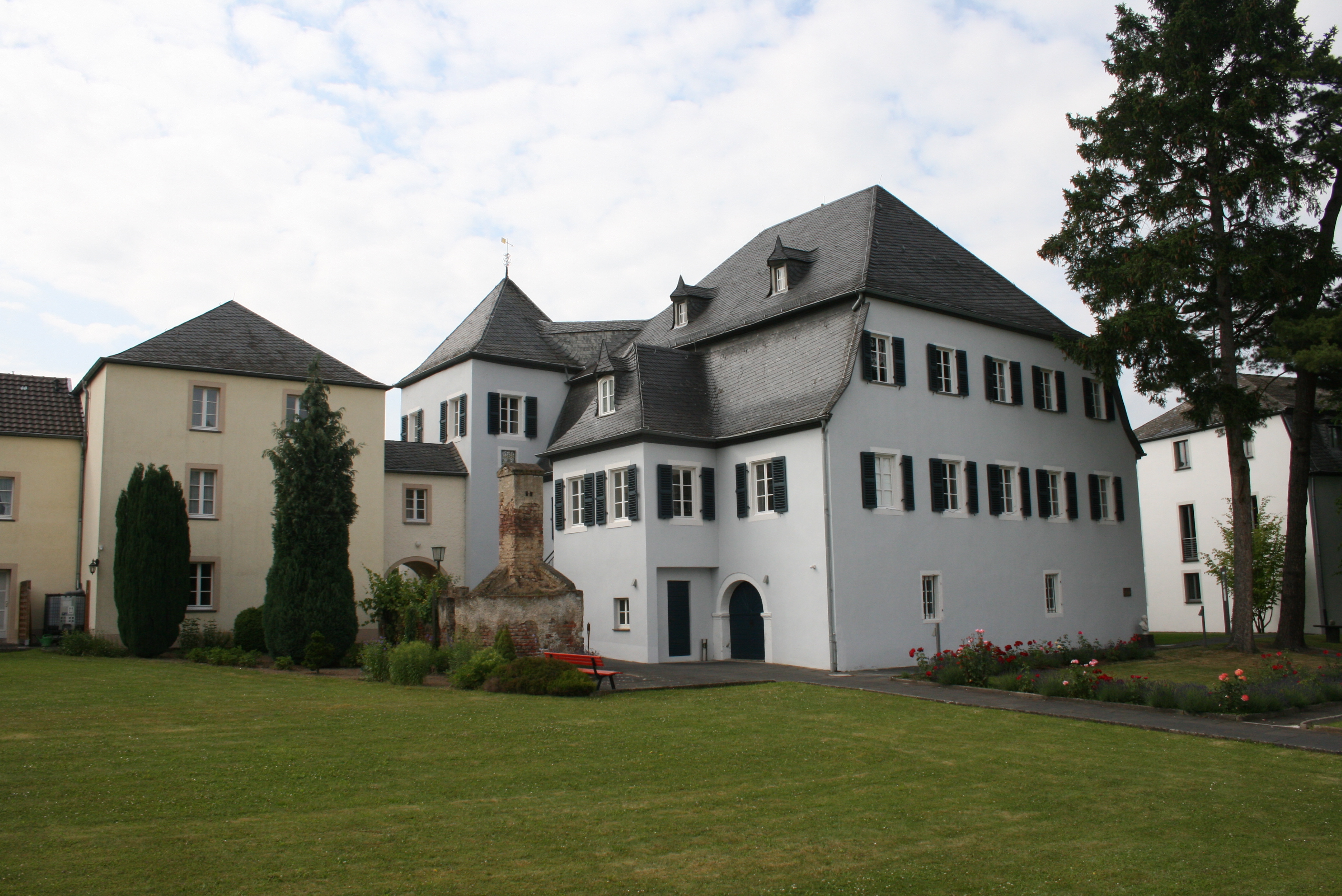 Studienhaus St. Lambert in Grafschaft-Lantershofen/Germany